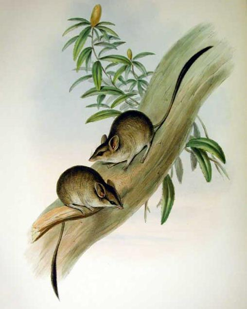 Antechinomys laniger(a?) (orig. Phascogale lanigera)